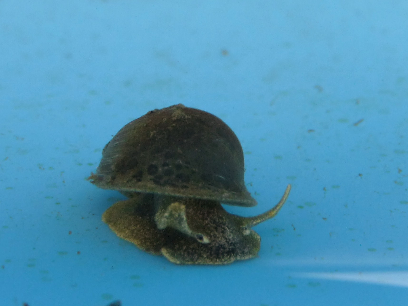 Radix auricularia japonica